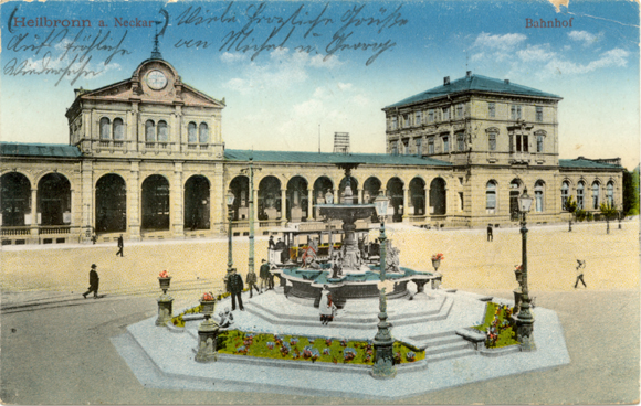 Heilbronn neuer Bahnhof um 1900.jpg